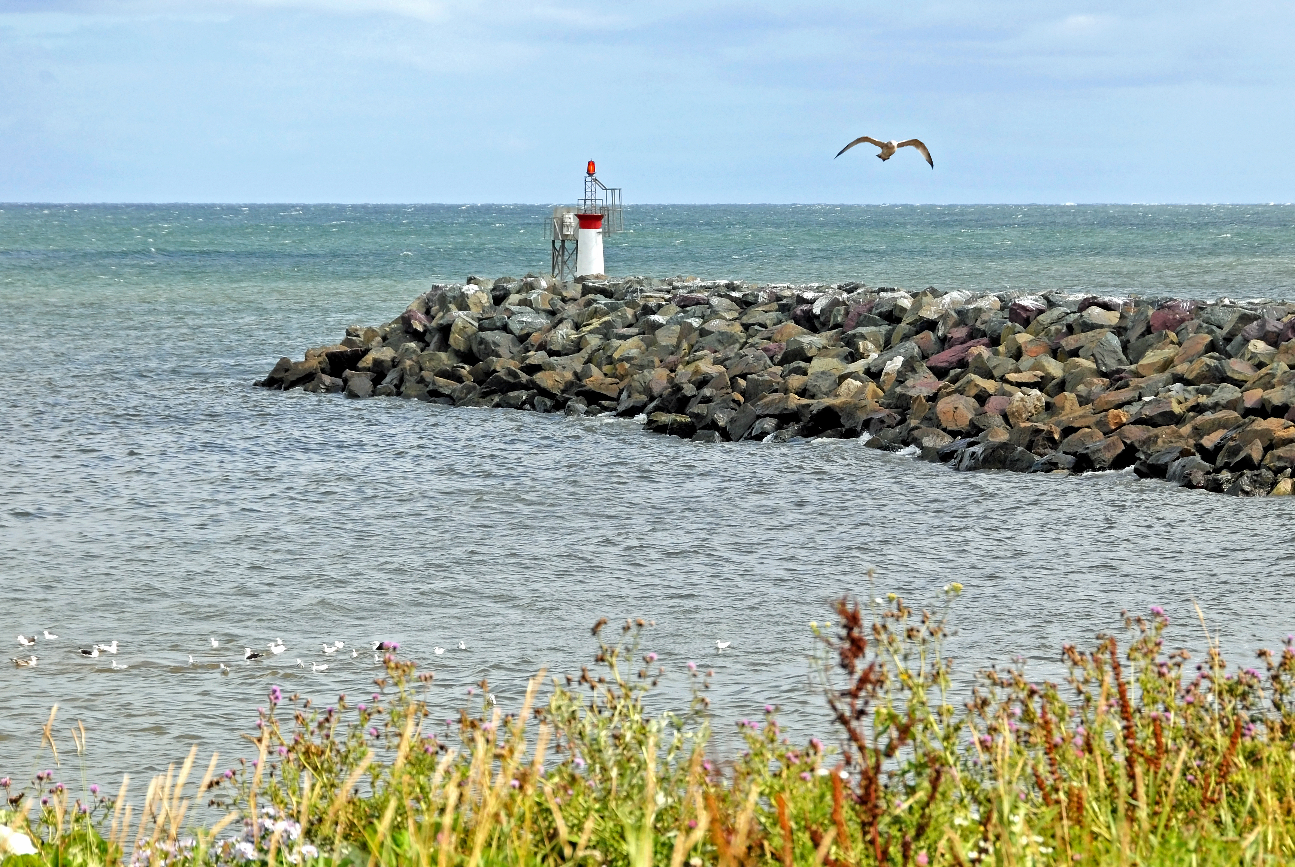 Glace Bay North Breakwater Light Light Type: Breakwater Light Location: On outer end of north breakwater Operating: This light is operational Began and Lit: 1990 Structure Type: Round fiberglass tower with a red top, it has no lantern Scenic Drive: Marconi Trail